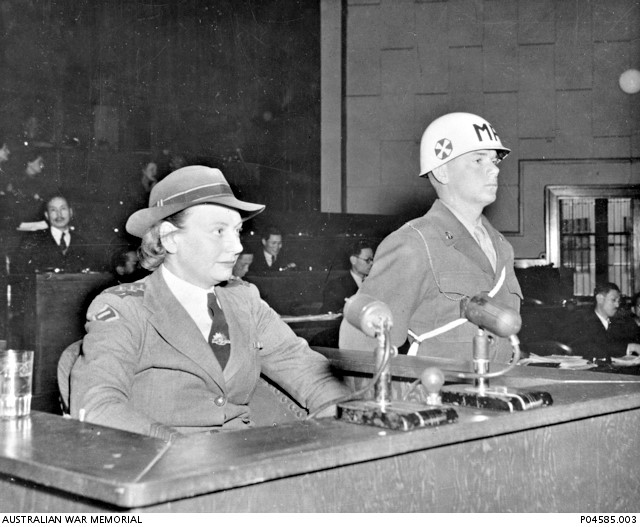 VX61330 Captain (Capt) Vivian Bullwinkel (left) sitting in a witness stand, giving evidence before the War Crimes Tribunal. Capt Bullwinkel was a nurse in the Australian Army Nursing Service (AANS), and was aboard the Vyner Brooke when it was attacked and sunk on 14 February 1942. She made it to shore almost immediately and the following morning she and British soldier, 7654688 Private (Pte) Cecil Gordon Kinsley, survived the massacre of the nurses, soldiers and civilians at the hands of the Japanese. They surrendered as prisoners of war (POWs) 12 days later and she was held in POW camps in Sumatra until September 1945. Pte Kinsley died soon after they were captured.